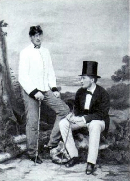 Princes Philipp and Ludwig Augusto of Saxe-Coburg-Koháry.